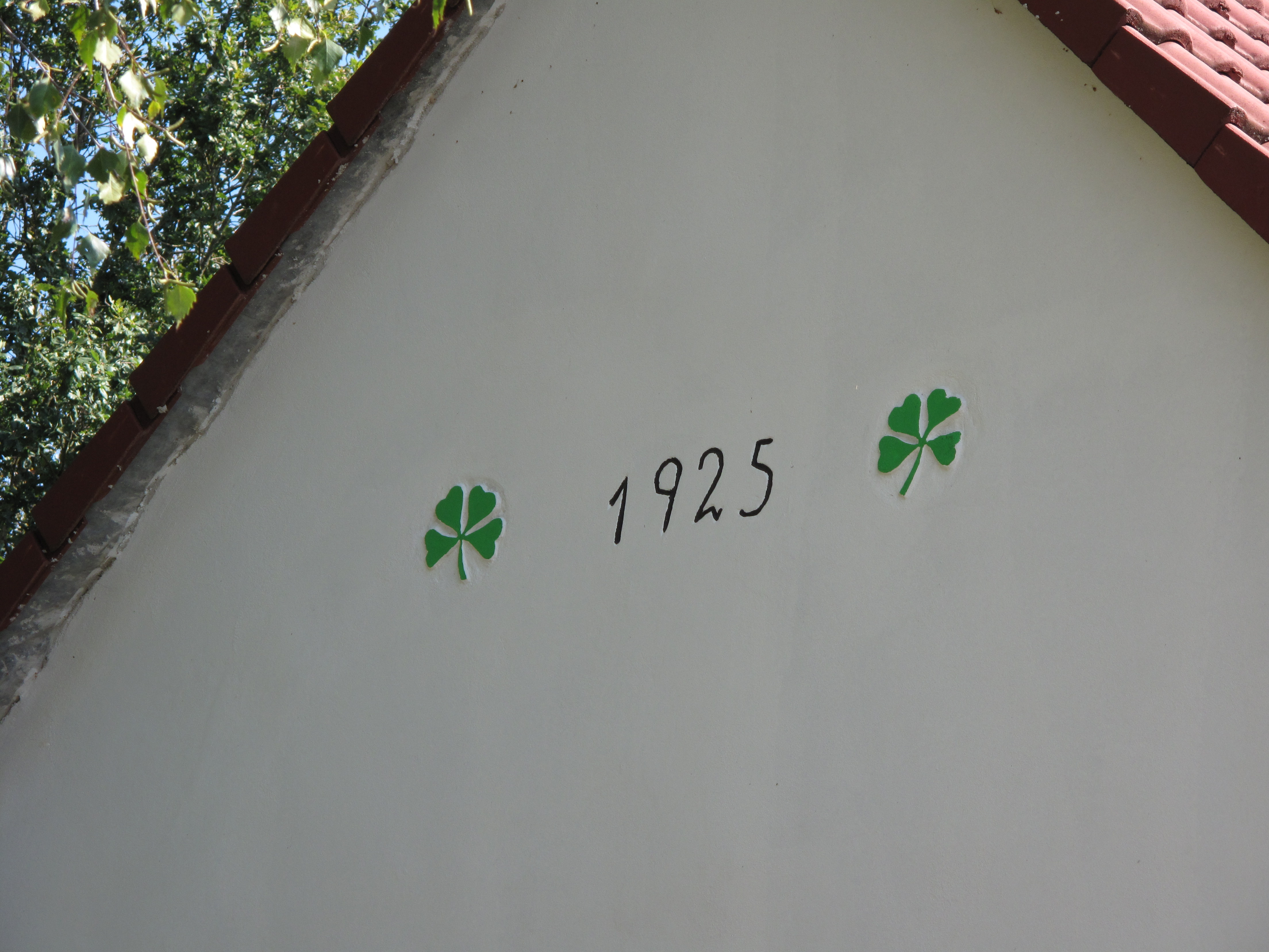 Sign of a Republican Party of Agricultural and Smallholder People on the facade in Borečnice village, Písek District, Czech Republic.